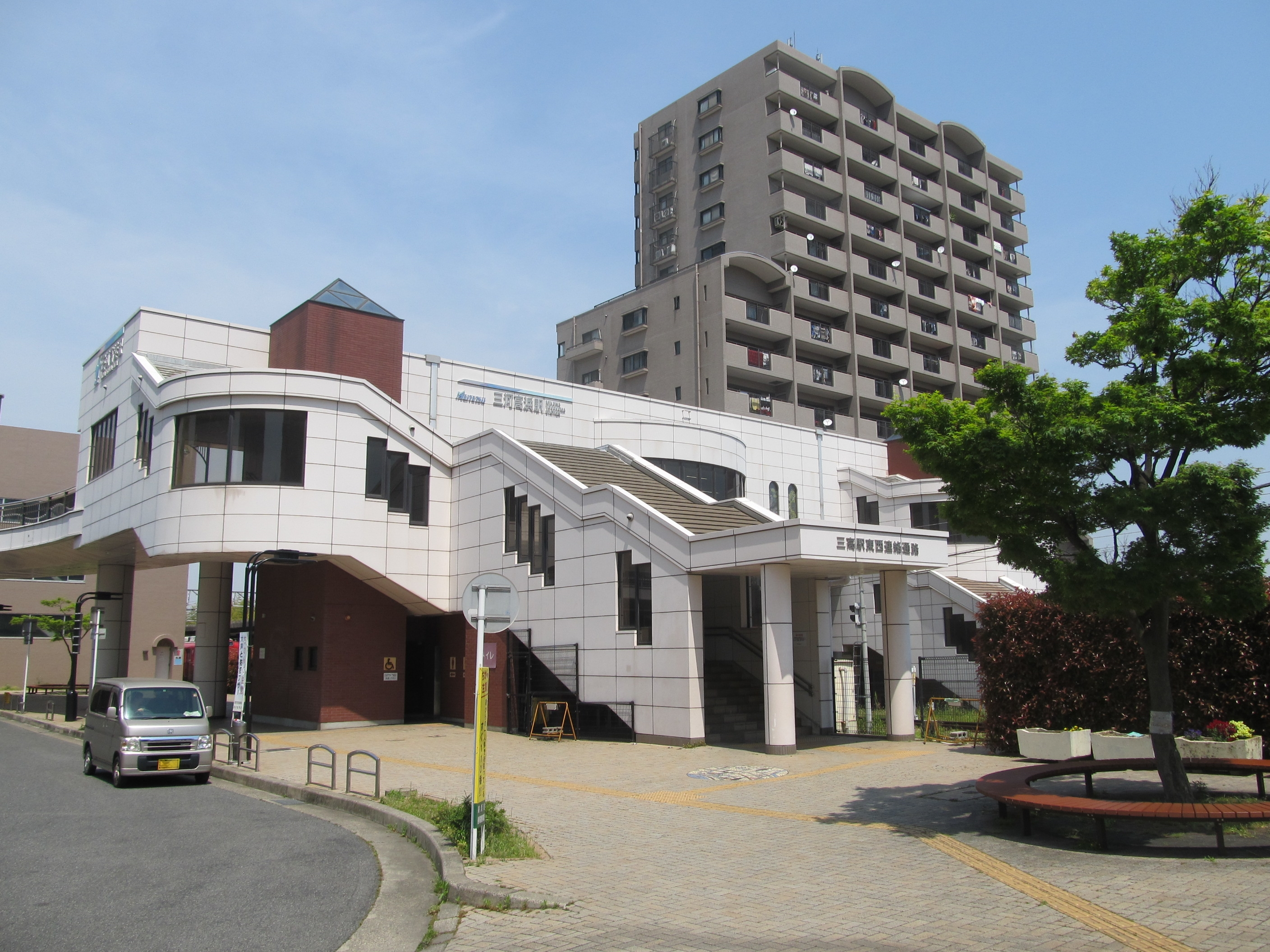 Nagoya Railroad Mikawa Line Mikawa Takahama Station West Gate